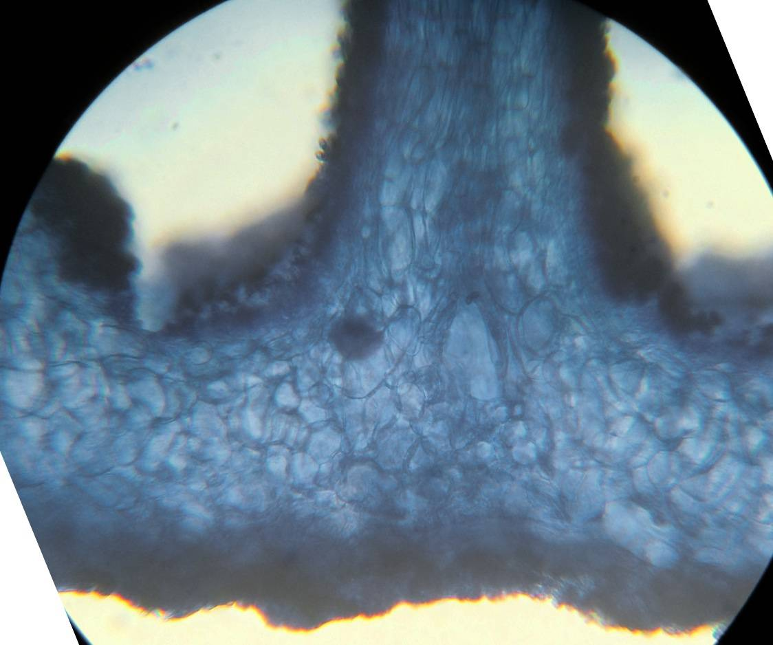 Microscopy showing the pileipellis, pileus trama, and lamellar trama at 100x magnification, from the mushroom Psilocybe yungensis Singer & A.H.Sm. Stained with methylene blue.